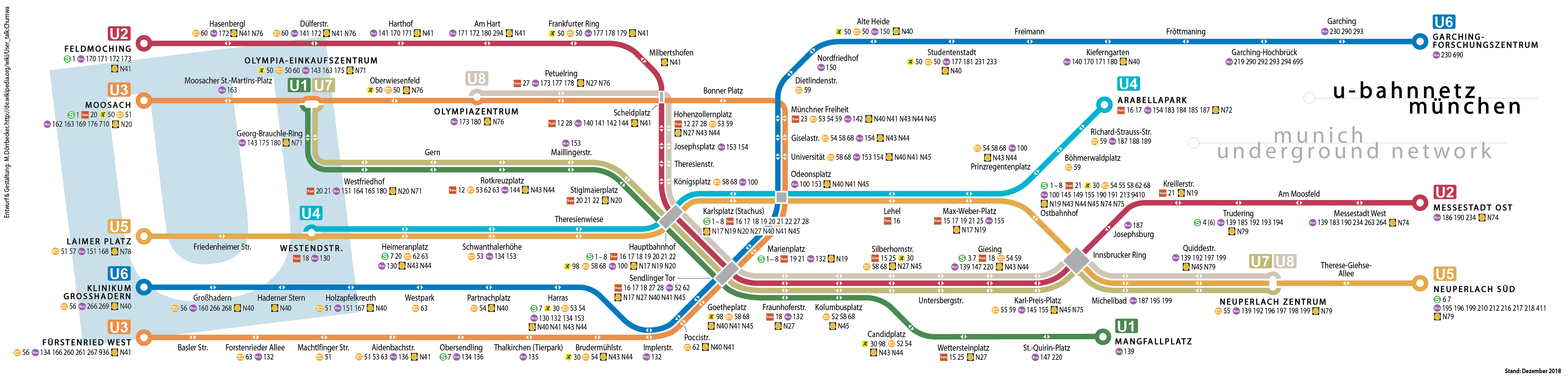 Munich's Subway Network December 2013